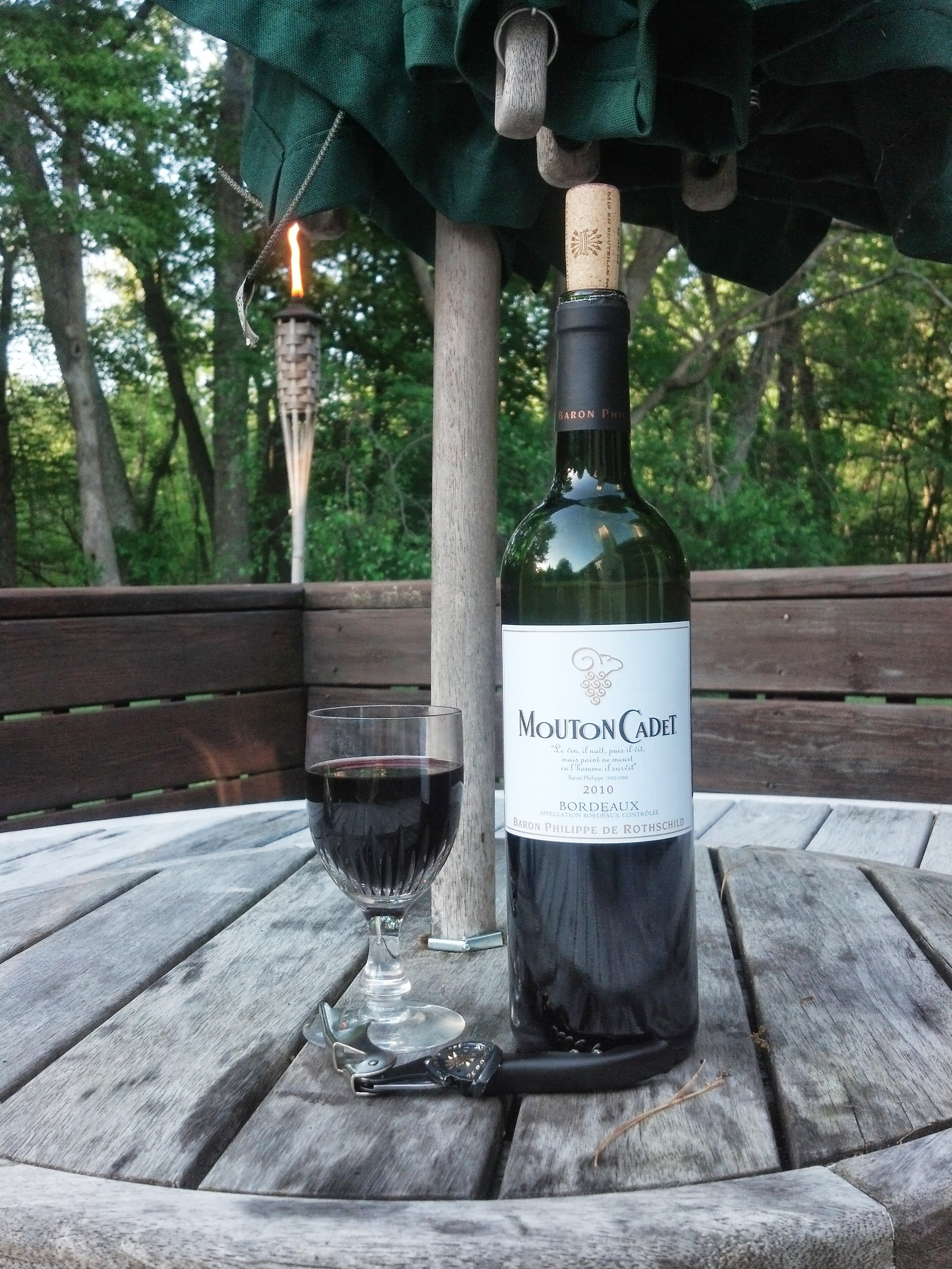 A bottle of Mouton Cadet